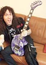 Marty Friedman backstage after his appearance on Nomura Guitar Trading Company, in Osaka, Japan. Taken with a DXG-305V digital camera. Both Marty & Nomura showing off their Fernandes ZO-3 guitars.